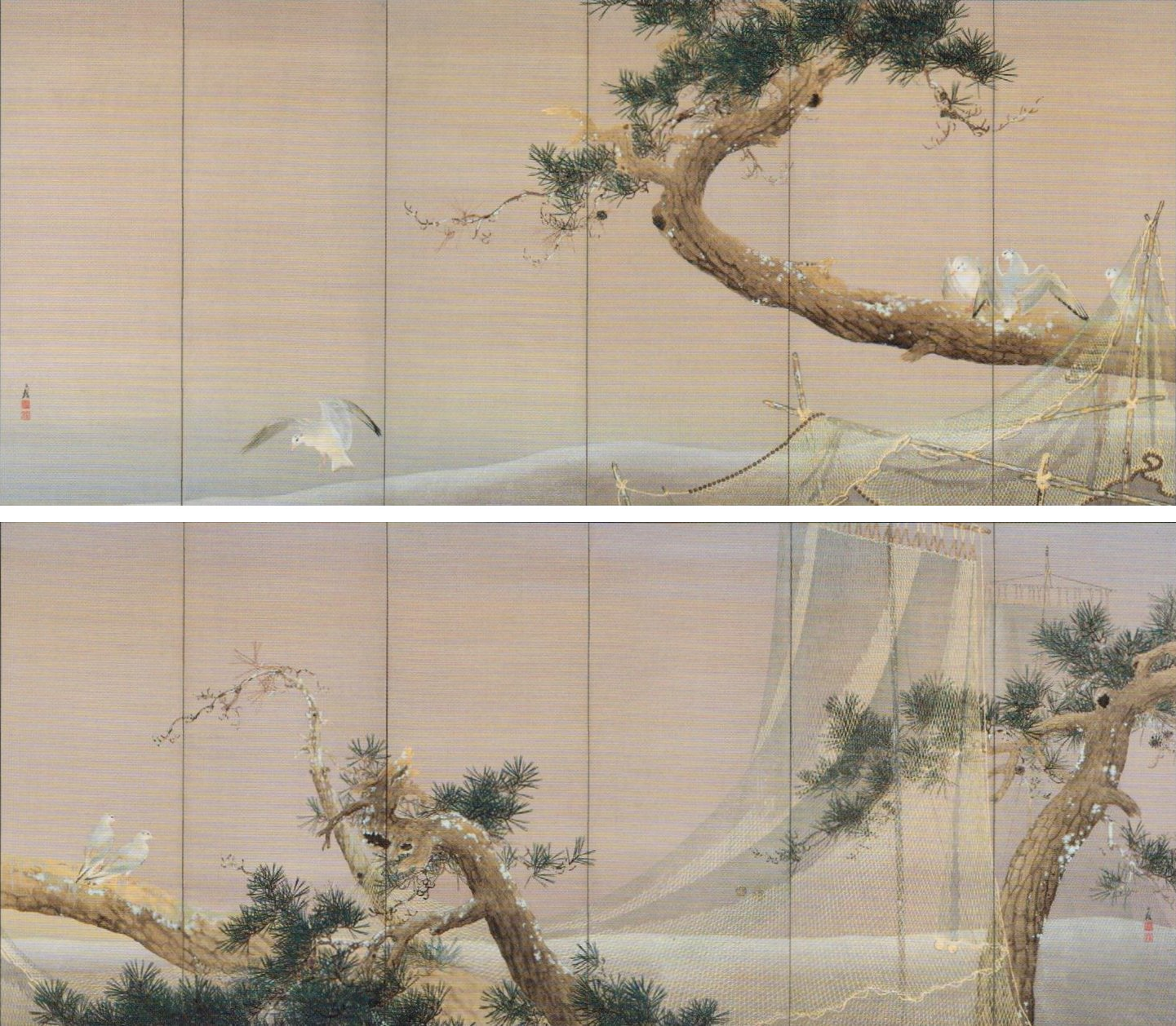 Shoreline at Dusk by Furuya Kōrin (1875-1910), 1910, pair of folding screens, 178.5 x 370 cm each